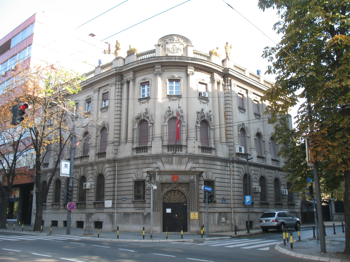 Embassy of Republic of Turkey in Belgrade,also building in which serbian doctor and poet Jovan Jovanović Zmaj lived.